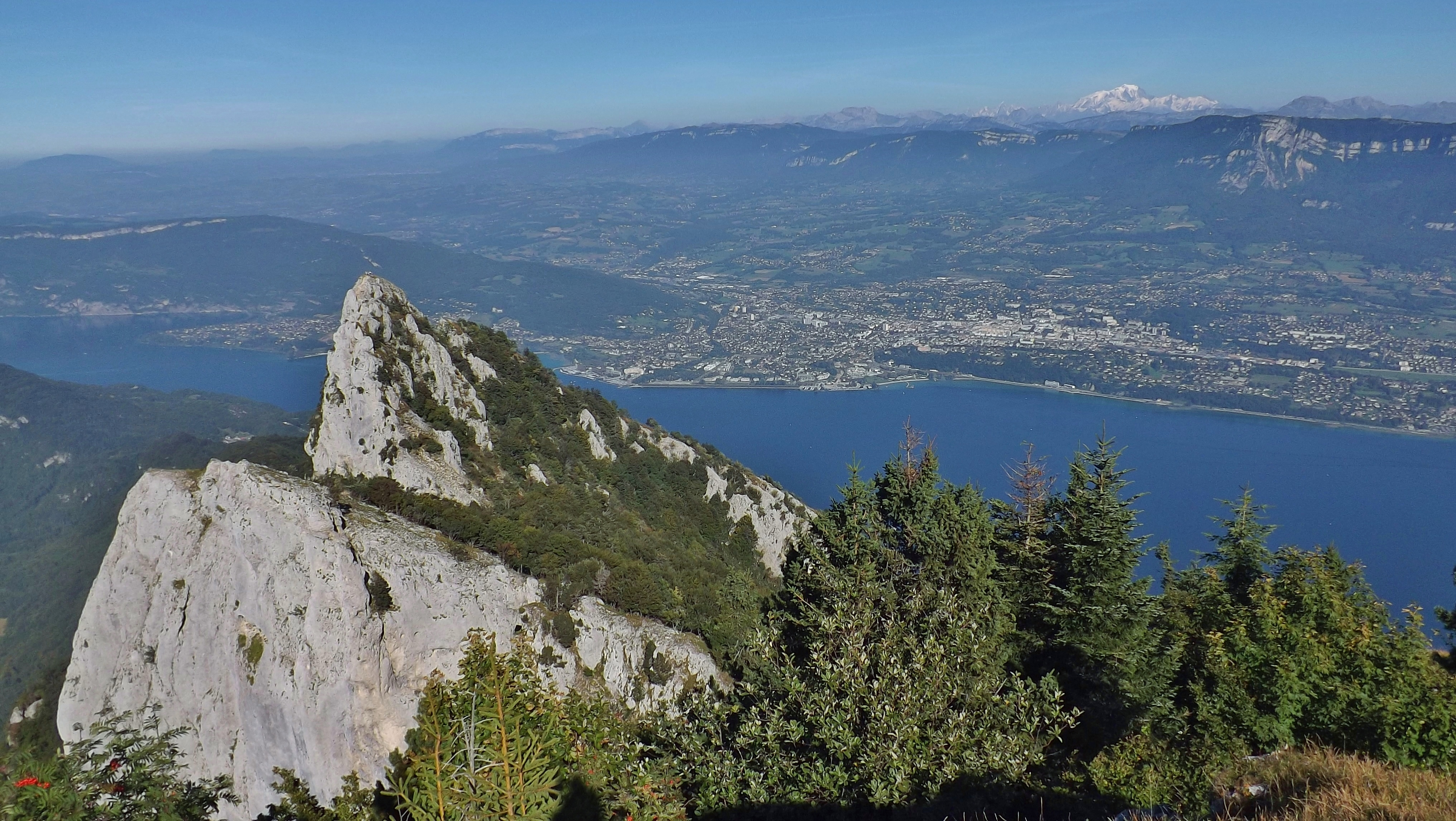 Panoramic sight of the dent du Chat mountain, the lac du Bourget lake, the city of Aix-les-Bains and the Mont-Blanc mount, in Savoie, France.